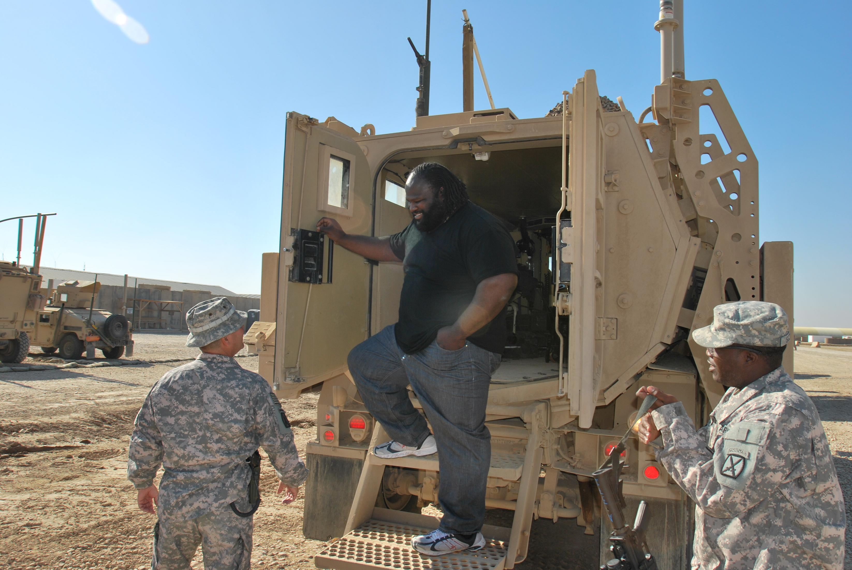 Command Sgt. Maj. Joe Montour (left), of Amarillo, Texas, the command sergeant major of the 2nd Brigade Combat Team, 10th Mountain Division, jokes with World Wrestling Entertainment Superstar Mark Henry as he exits a Mine Resistant Ambushed Protected vehicle at Contingency Forward Operating Base Hammer, Dec. 3. Seven World Wrestling Entertainment Superstars visited Soldiers at three 2nd BCT installations.